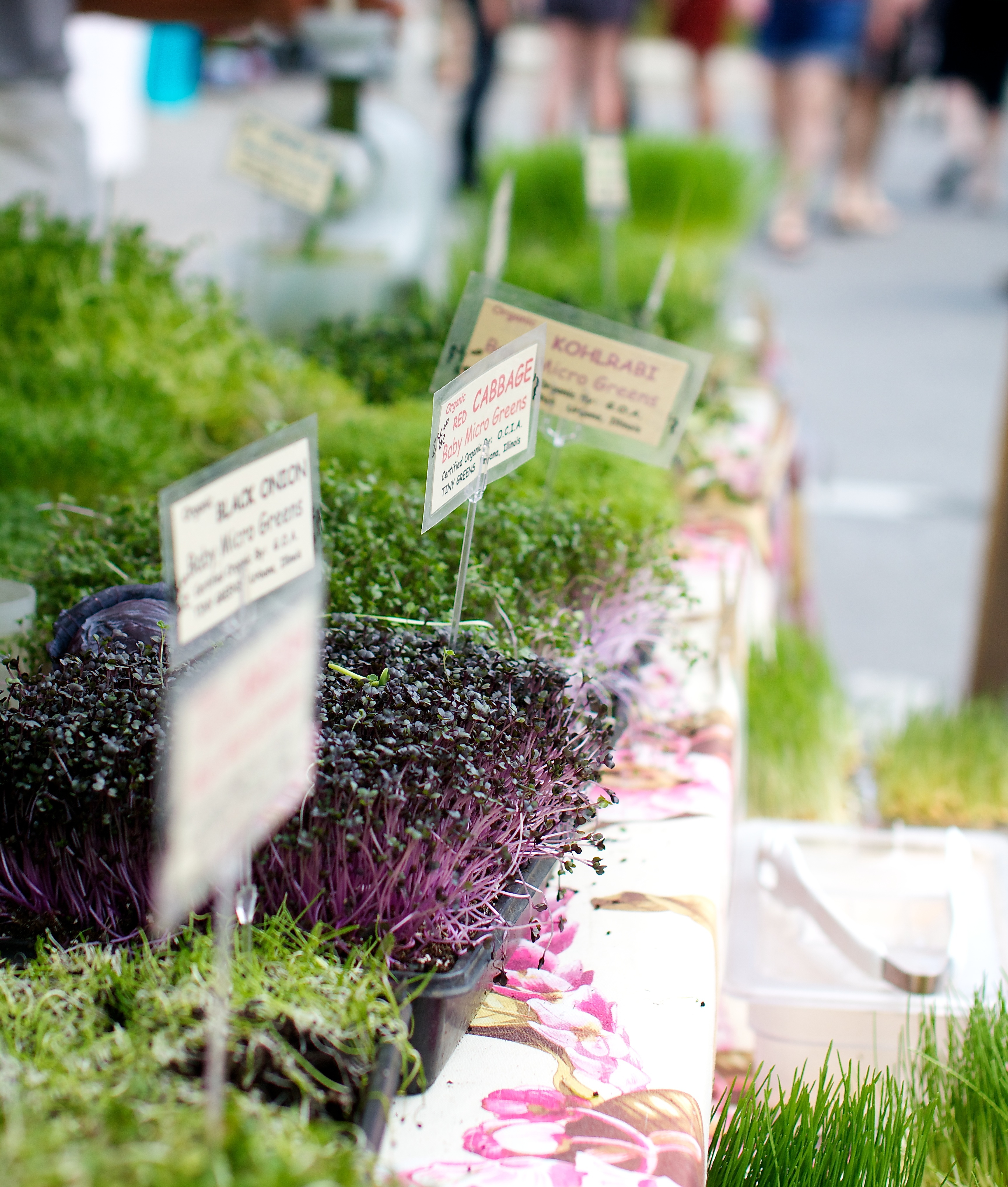 Logan Square Farmers Market in Chicago, IL.